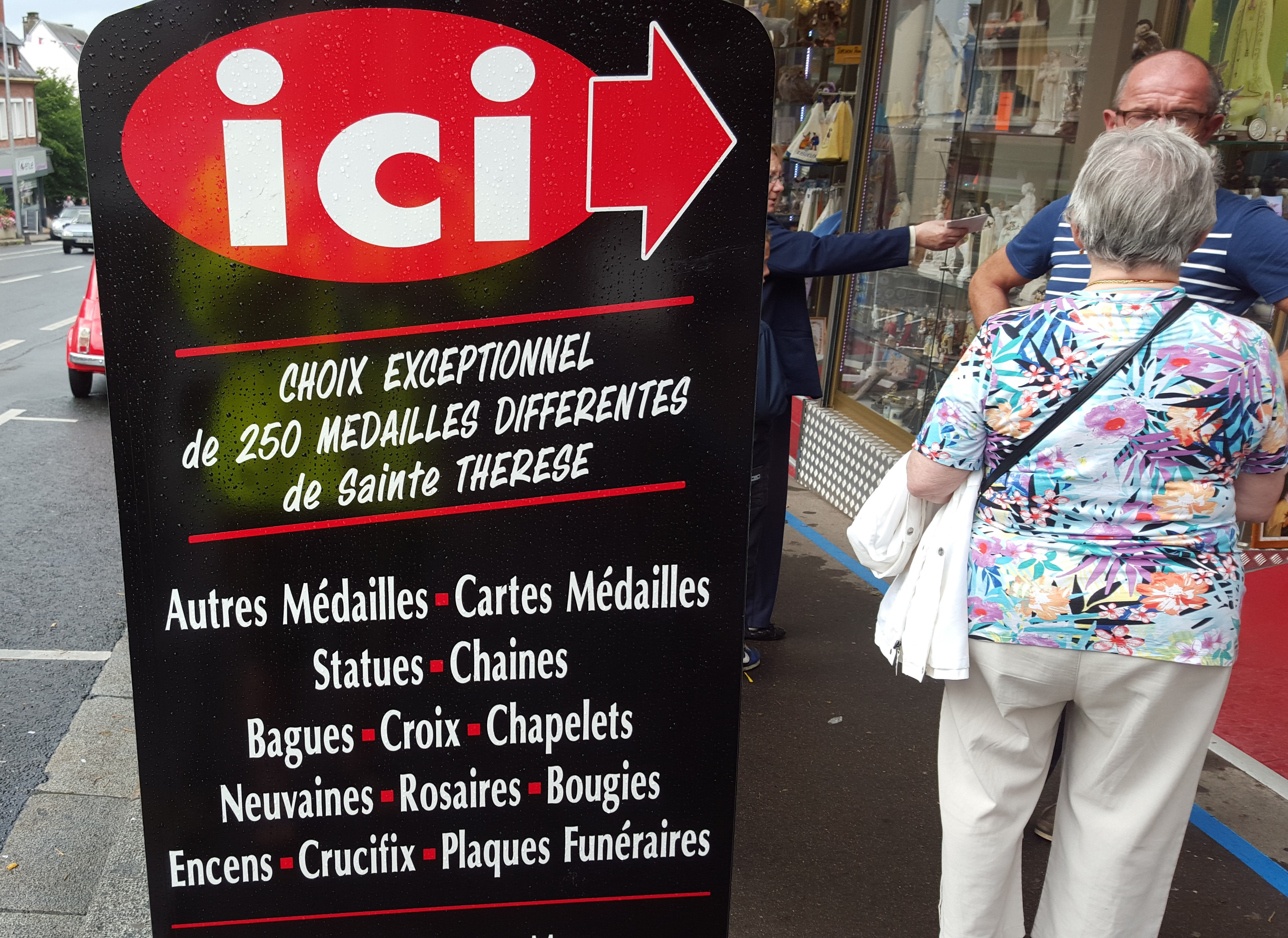 Choice of 250 medals of Sainte Therese